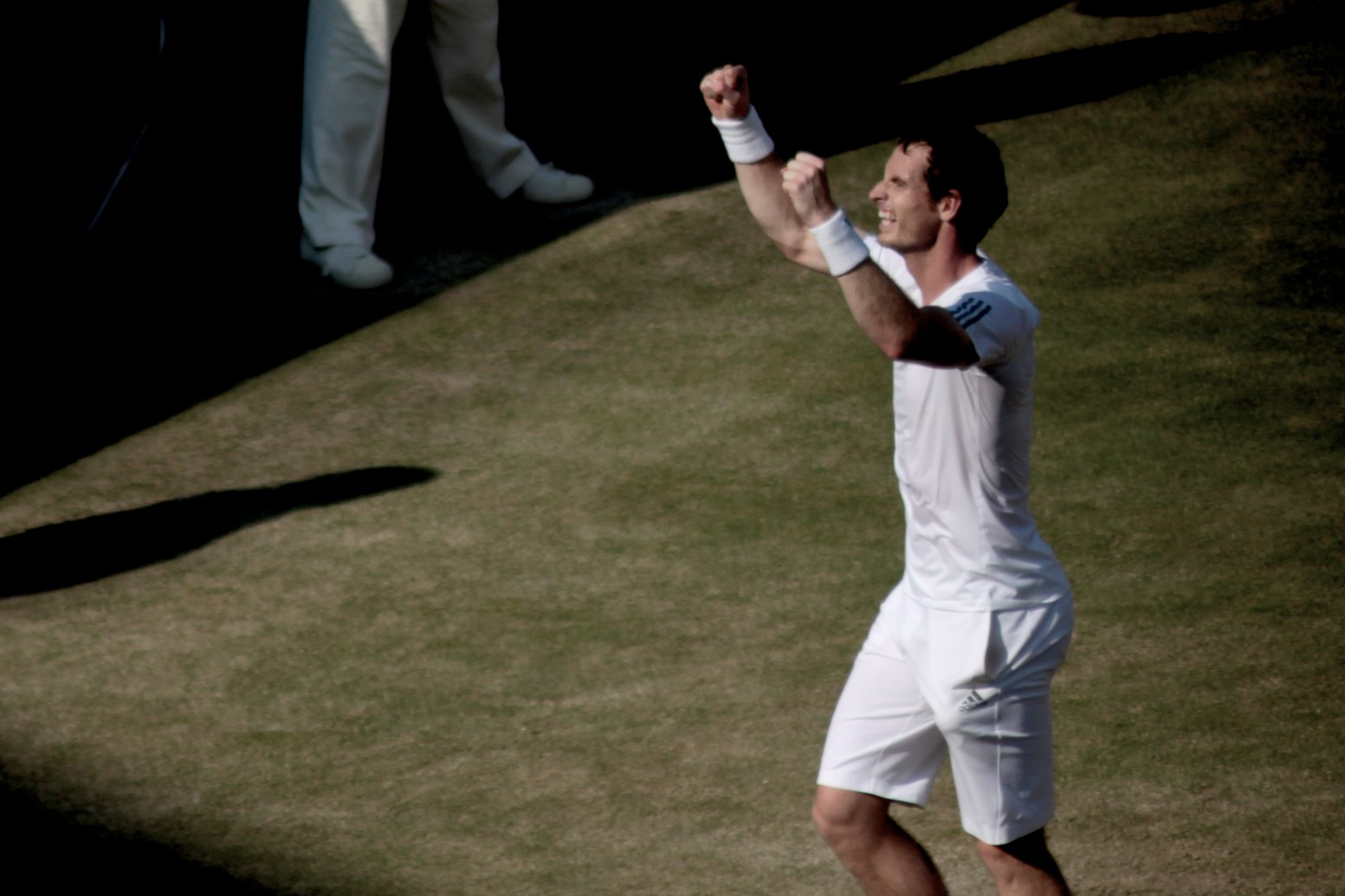 Andy Murray seconds after winning Wimbledon 2013